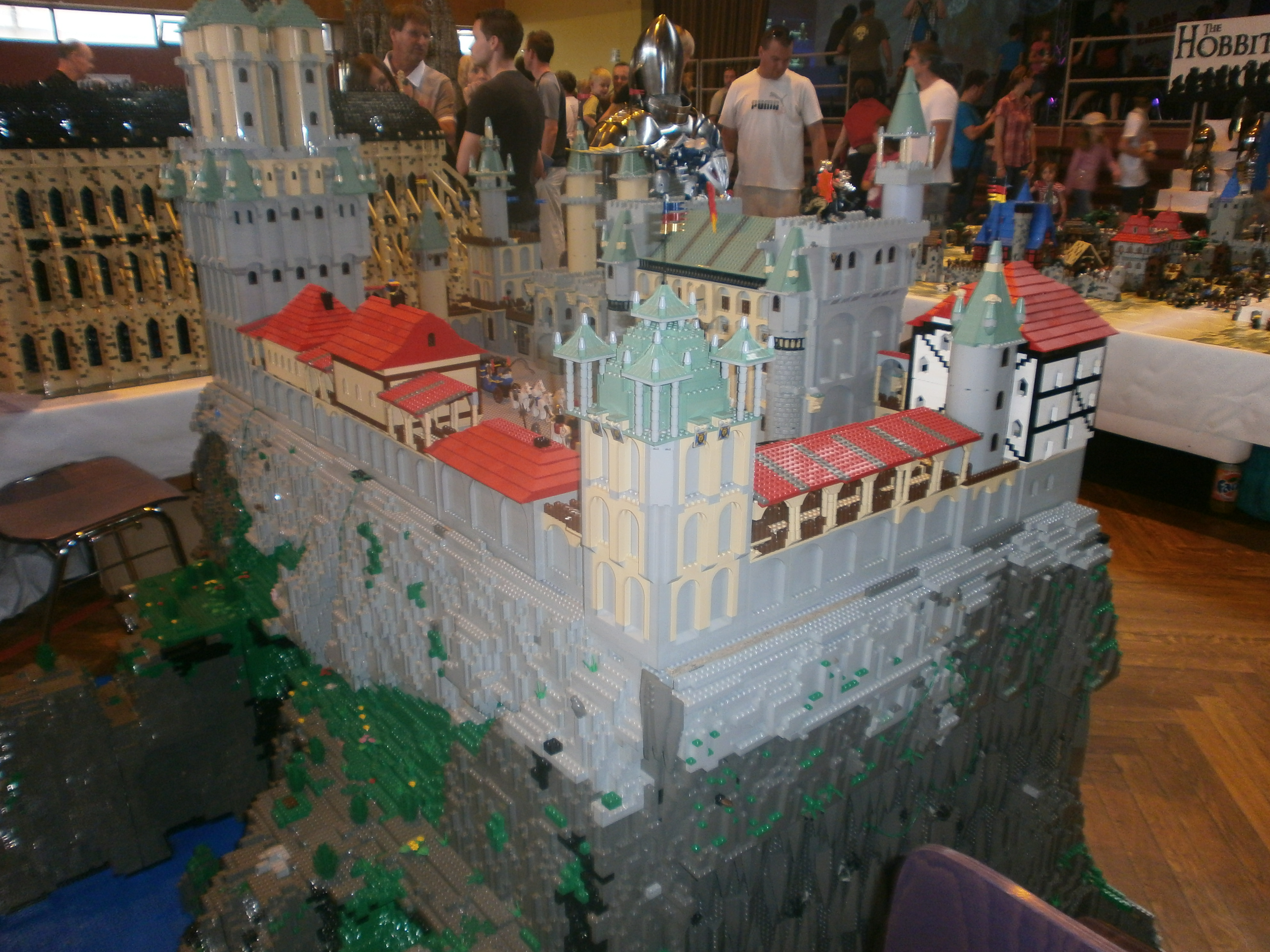 A lego construction representing a castle